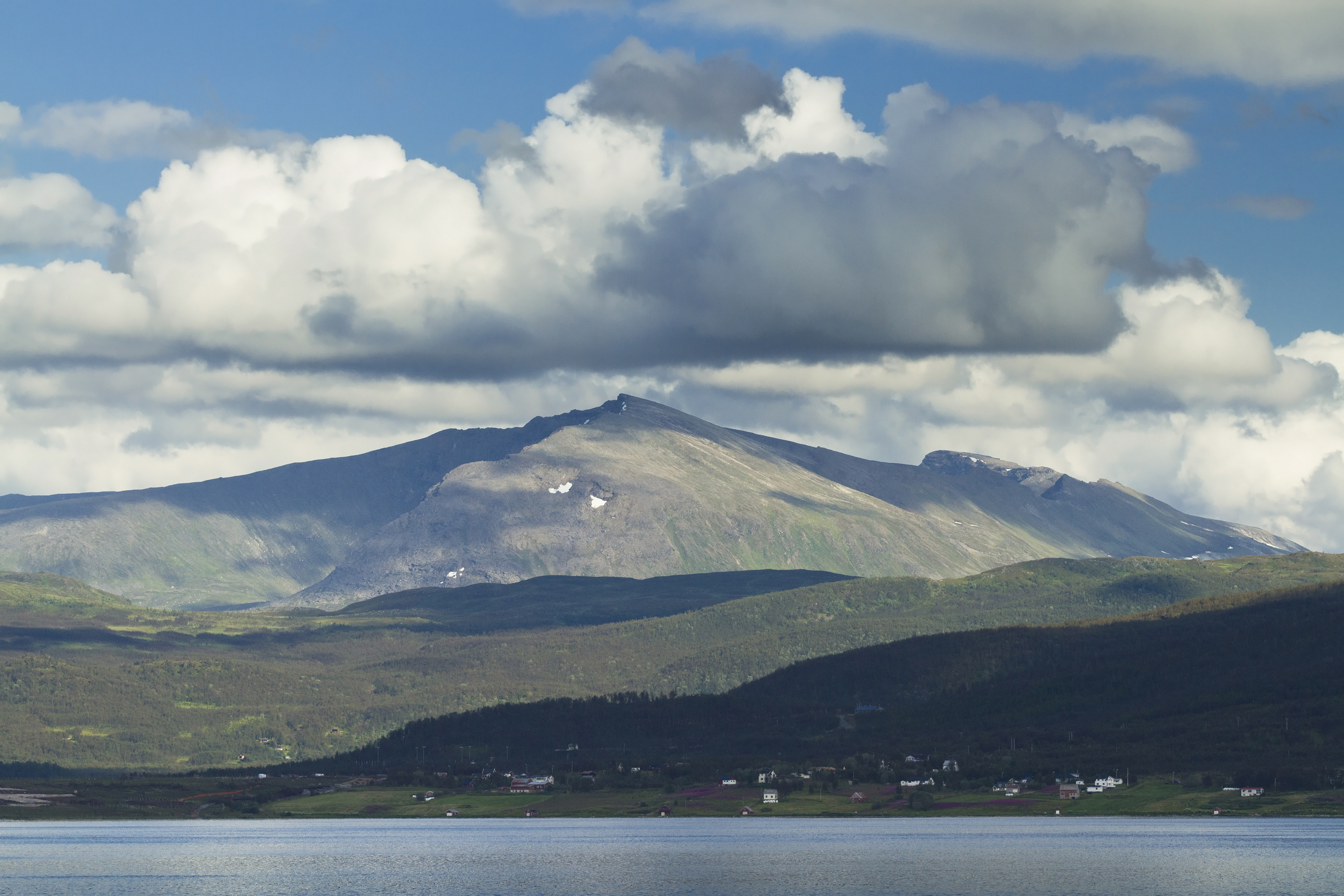 Rundfjellet as seen over Grøtsundet from Kvaløya, Troms, Norway in 2014 July.